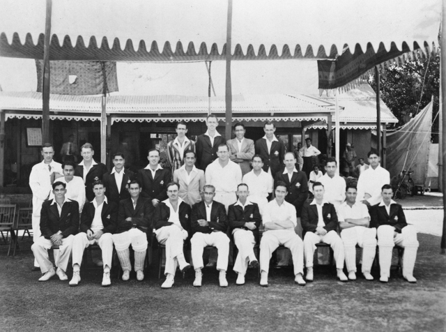 Calcutta, India, 1945-11-21. Group portrait of the combined teams taken at the cricket match between the East Zone XI and the Australian Services Cricket Team. Left to right: back row: J.R. Phansalkar, Pilot Officer J. Pettiford RAAF, N. Chatterjee, Flight Sergeant Jim A. Workman RAAF; second row: Dubree Carey, P. Gupta, Flight Lieutenant A.W. Roper RAAF, B.B. Nimbalkar, Sergeant Charles F.T. Price AIF, T.V. Parthasarathy, Sergeant Cecil G. Pepper AIF, C.T. Sarwate, Flying Officer E.A. Williams RAAF, J.N. Bhaya, M. Banerjee; front row: C.S. Nayudu, Flying Officer Keith Ross Miller RAAF (Vice Captain of the Australian XI), S. Mushtaq Ali, Captain R.S. (Dick) Whitington AIF, C.K. Nayudu, Warrant Officer Class 2 (WO2) (Arthur) Lindsay Hassett (Captain of the Australian XI), Dennis Compton (English Test player and guest participant in the Eastern Zone Team), Flying Officer D.R. (Bob) Cristofani RAAF, S.N Banerji and Flying Officer C.D. Bremner RAAF.